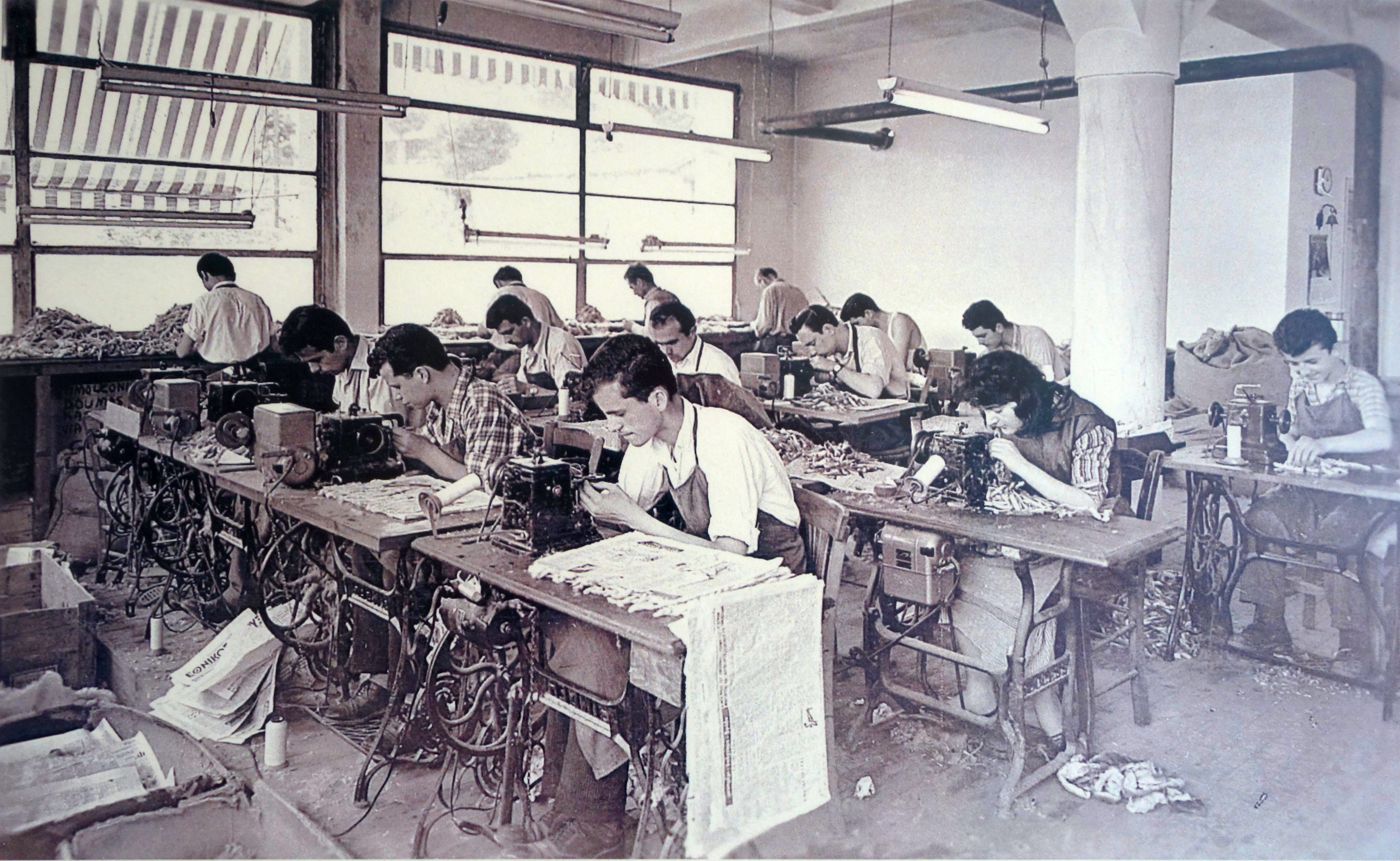 Furrier's workshop, Kastoria 1955.